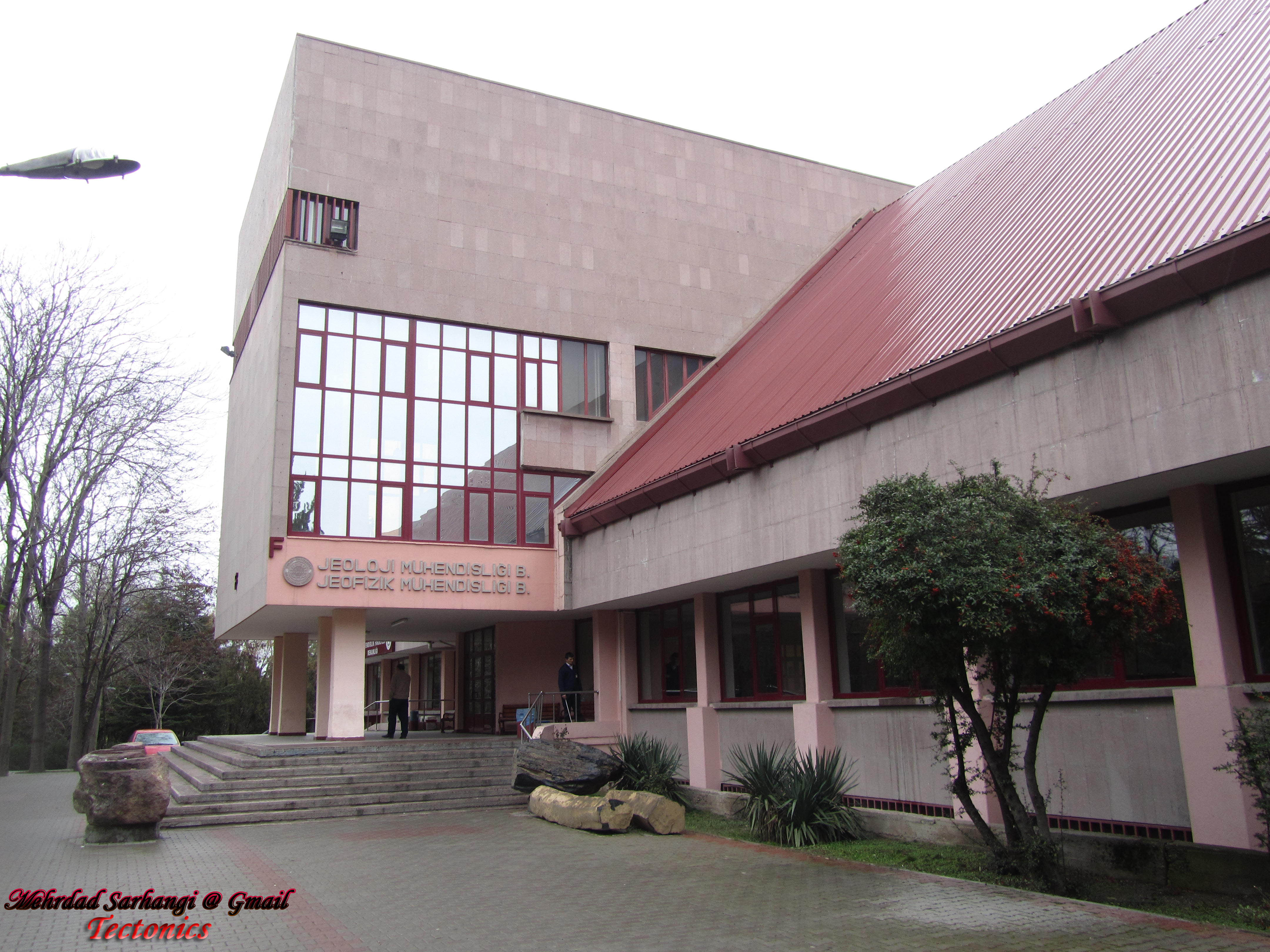 Department of Geological Engineering